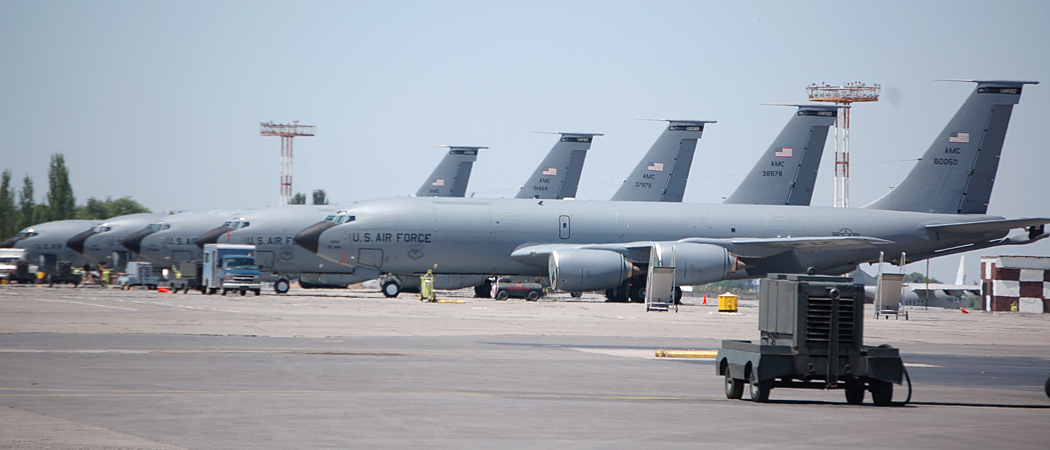 A row of KC-135 Stratotankers, assigned to 22nd Expeditionary Air Refueling Squadron at Manas Air Base, Kyrgyz Republic, await their next mission in the area of operation. The 22 EARS is stationed at the same location as the 376th Expeditionary Wing which is responsible for providing combat airlift and air refueling, principally in support of OPERATION ENDURING FREEDOM.